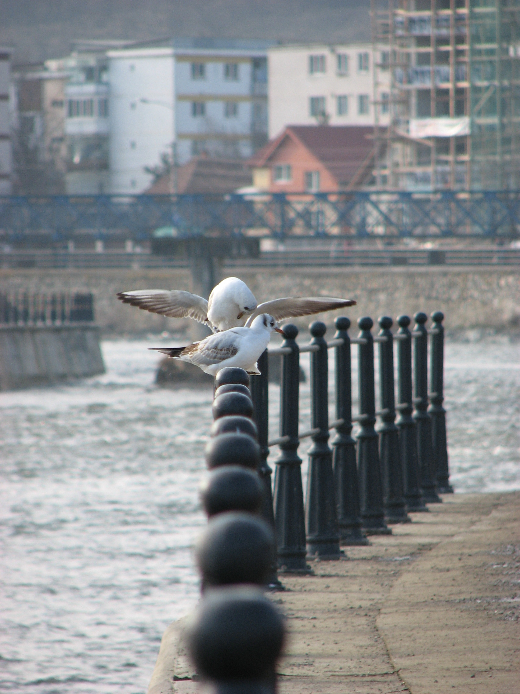 Black-headed Gulls